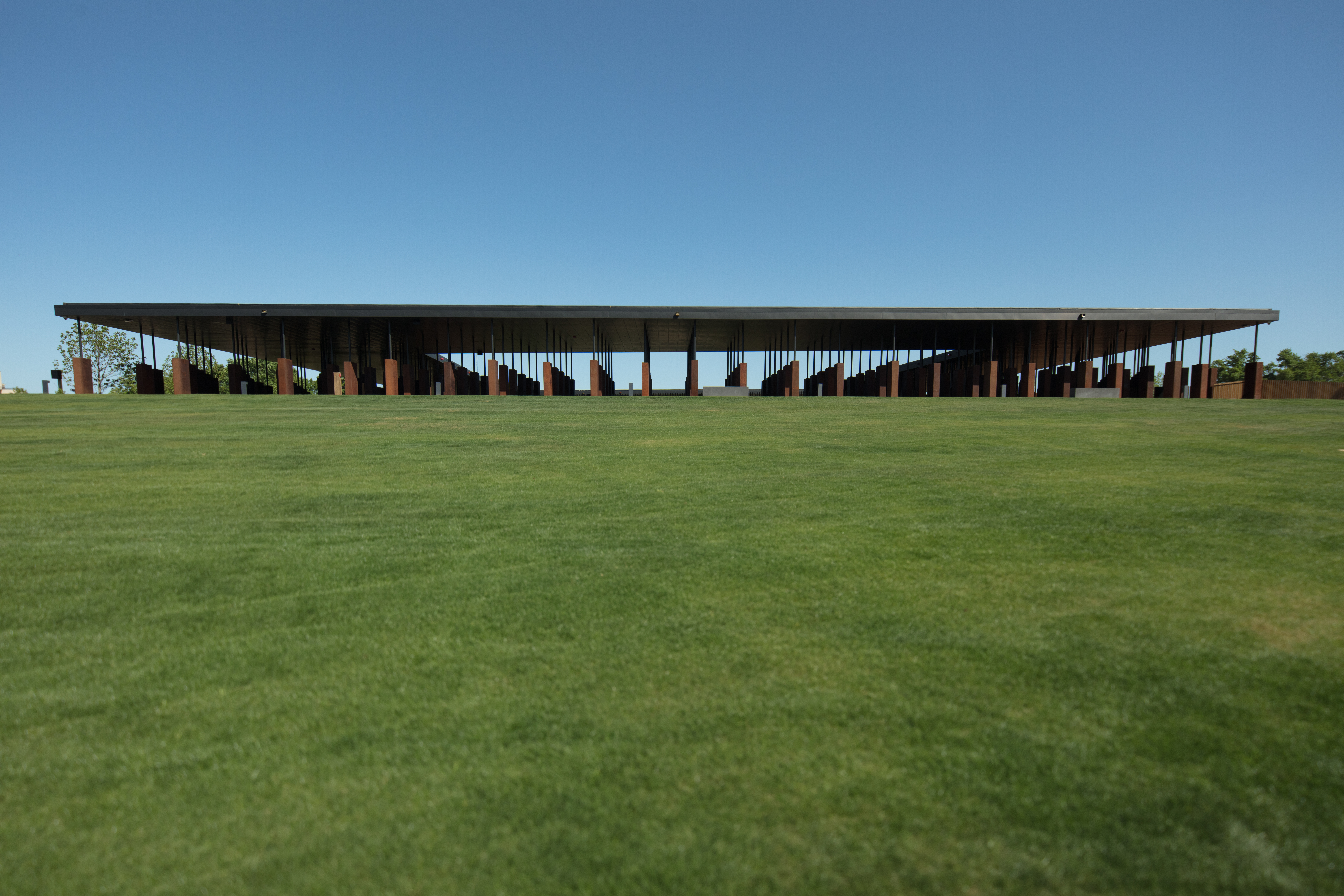 More than 4400 African American men, women, and children were hanged, burned alive, shot, drowned, and beaten to death by white mobs between 1877 and 1950. The National Memorial for Peace and Justice is a sacred space for truth-telling and reflection about racial terror in America and its legacy.